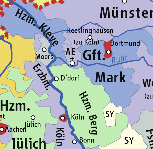 Map of Holy Roman Empire 1648